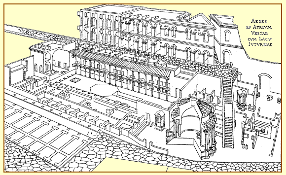 Roma, Foro Romano, Casa delle Vestali